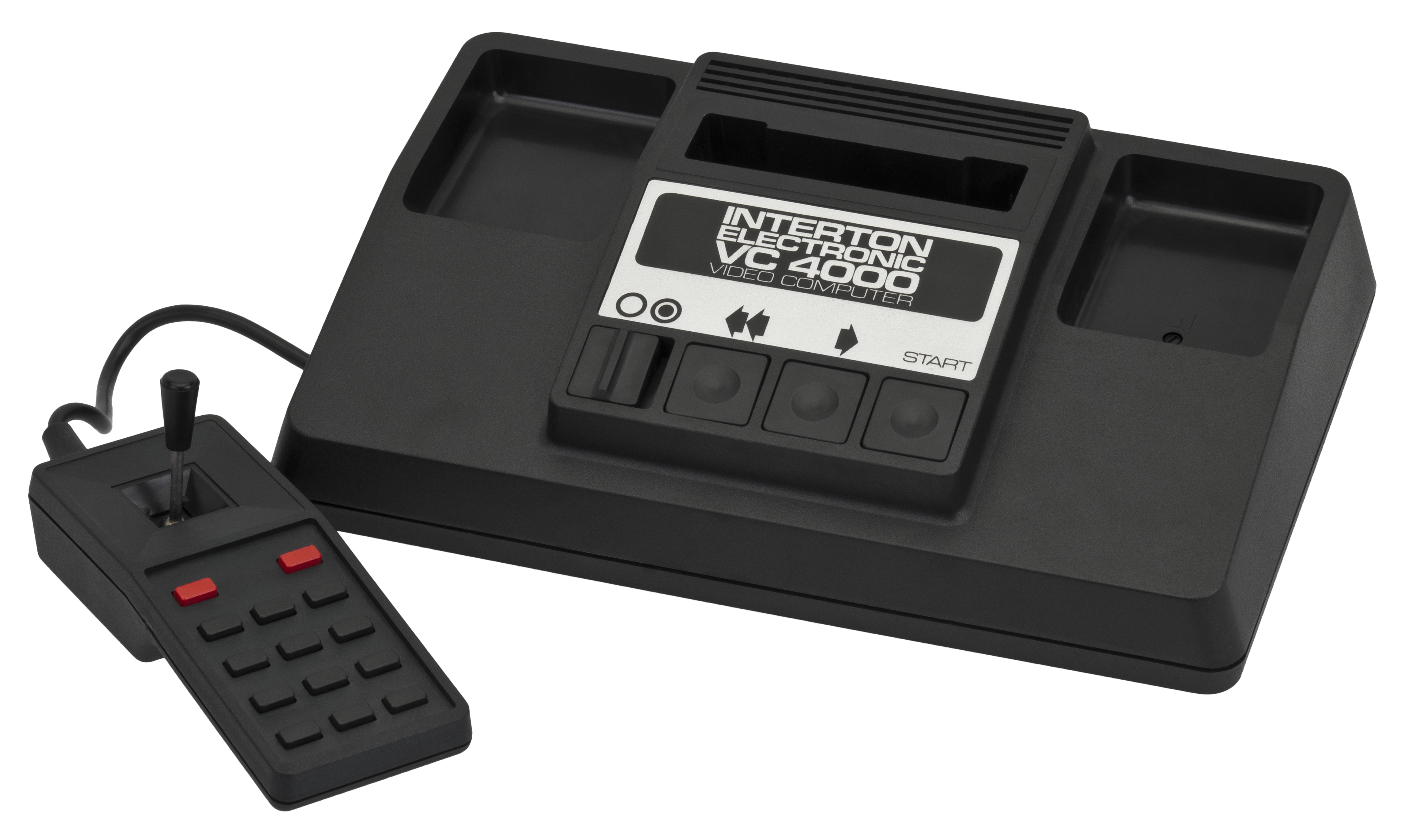 The VC 4000 with controller. A second-generation video game console released in Germany by Interton Electronics.